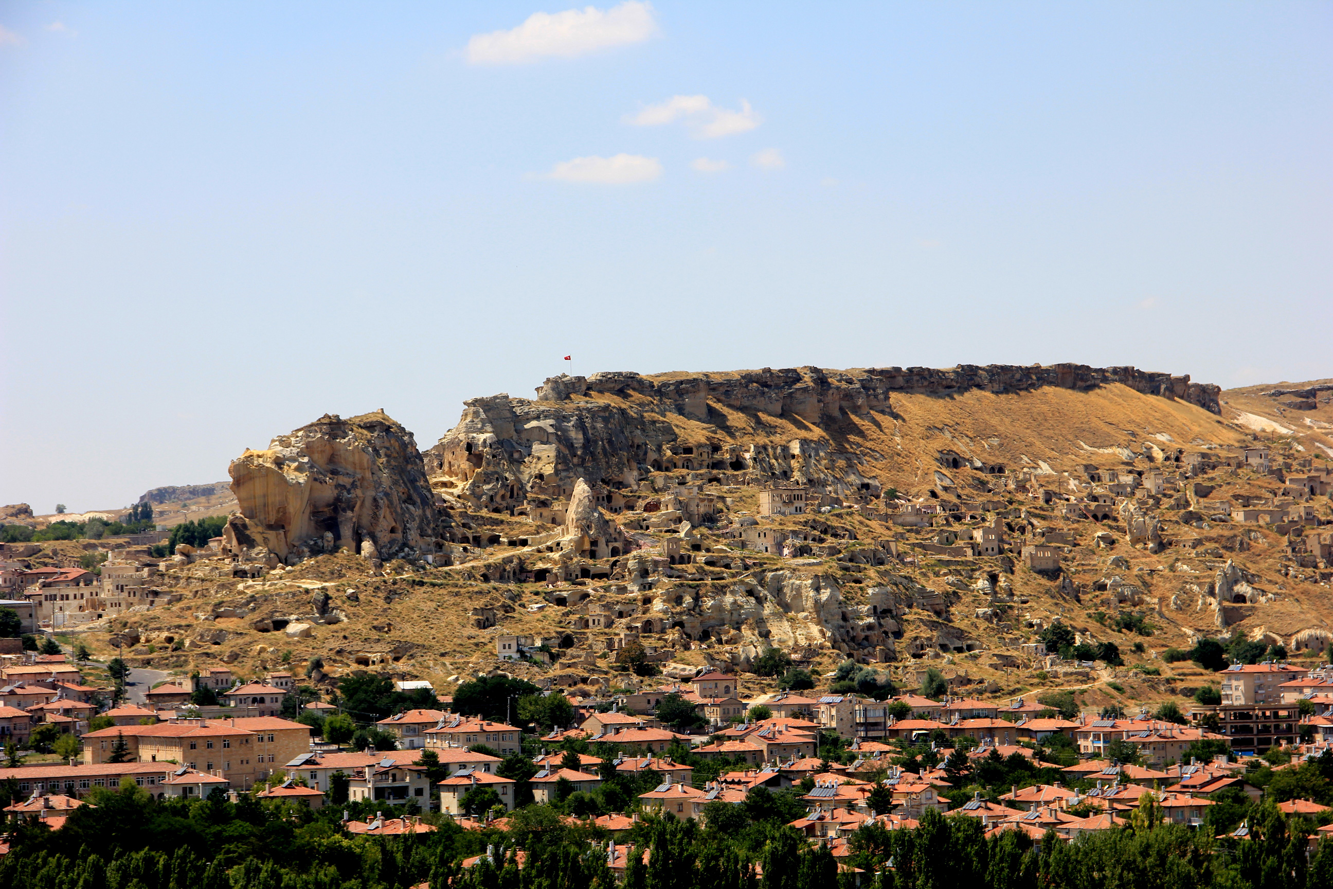 General view over Kayakapı